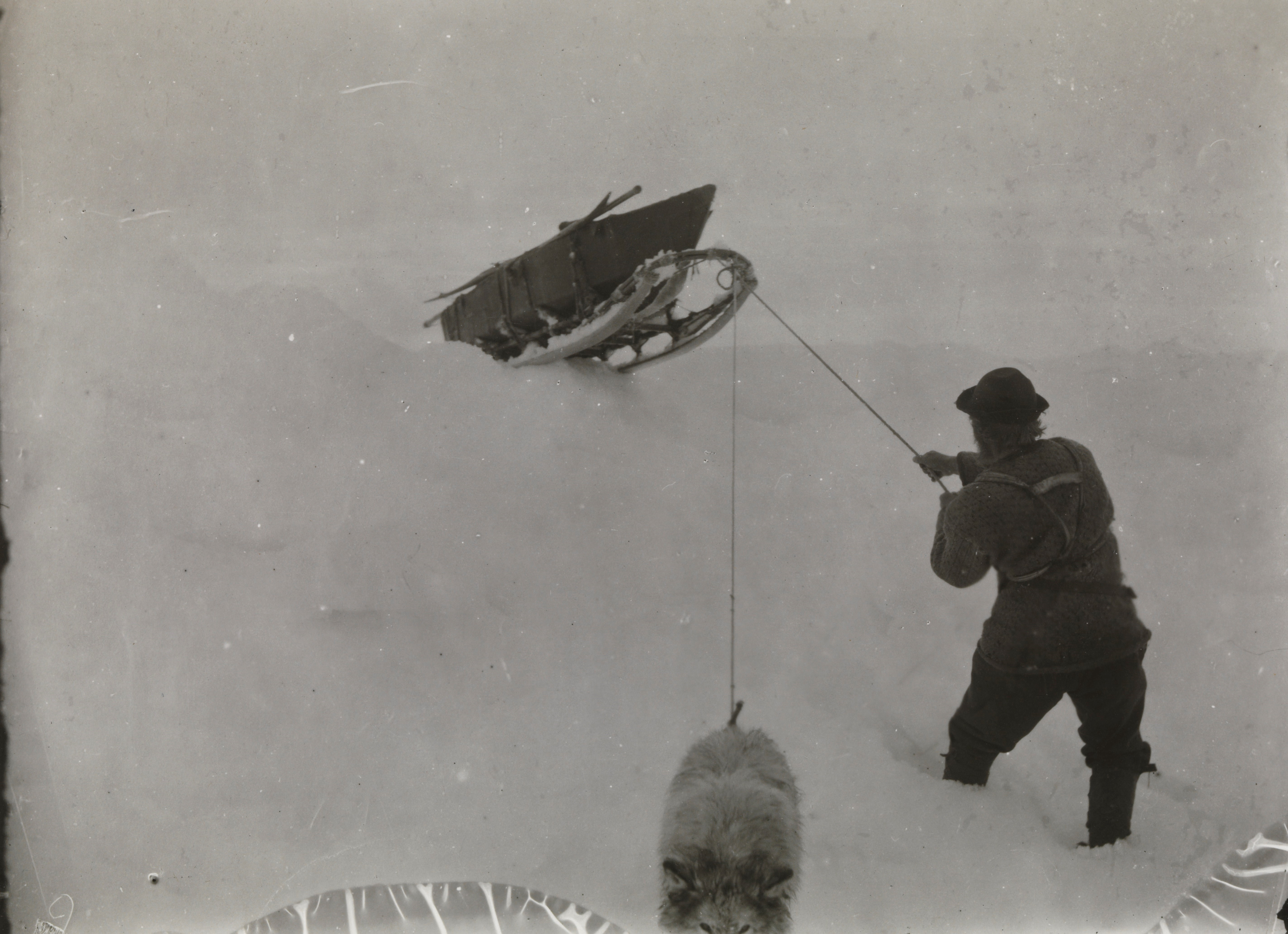 Fredrik Hjalmar Johansen pulling a sledge on the way south, together with his last dog, Suggen. One of the pictures from the expedition with arctic ship toward the North Pole in the period June 24, 1893 to August 13, 1896. According to the plan, the ship was to drift in the ice with the ocean current from the coast of Siberia across the North Pole to Greenland. In March 1895, Fridtjof Nansen, together with a companion, set out on a hazardous expedition with skis and dogsledges, in an attempt to reach the pole itself.